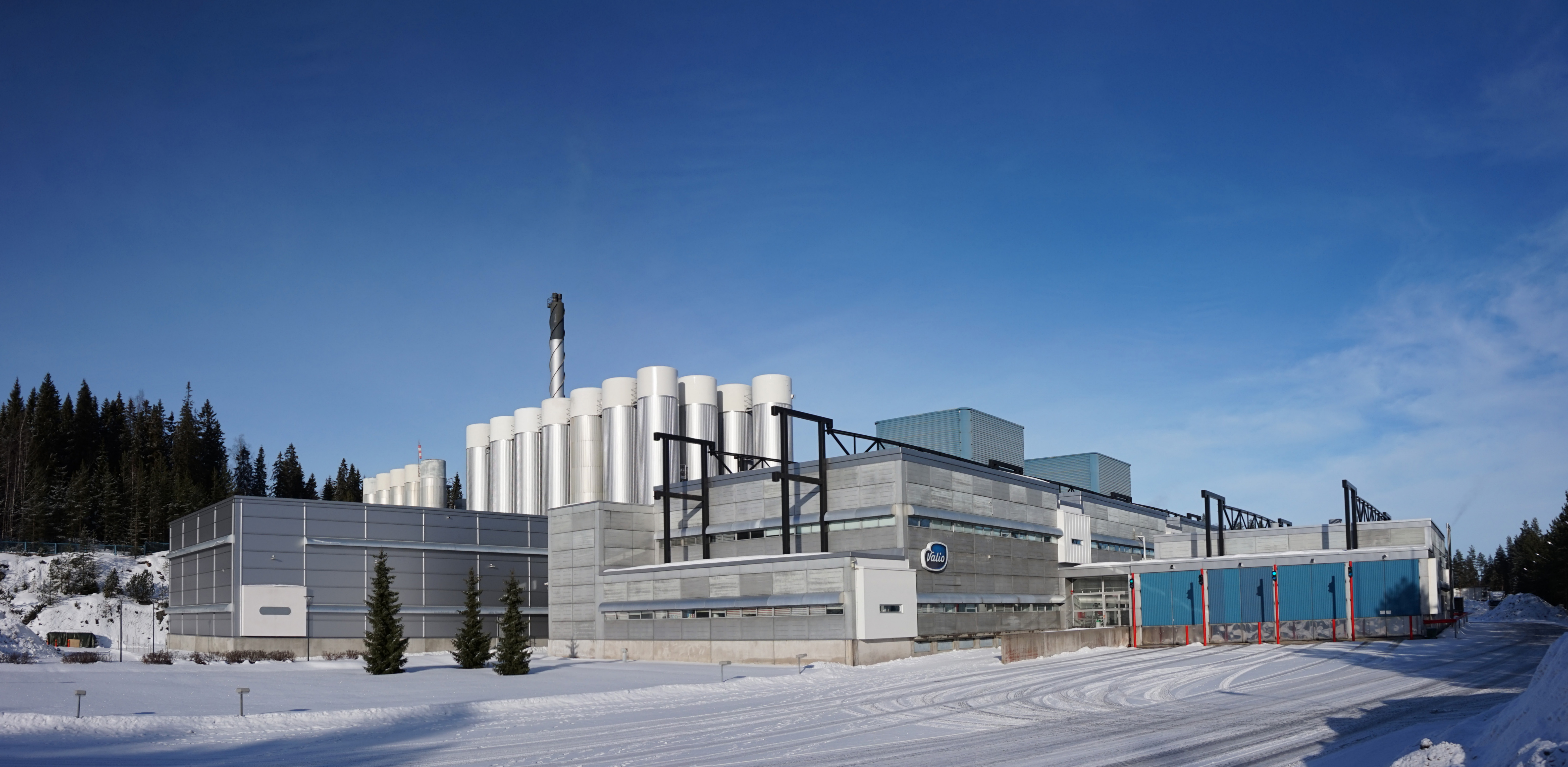 Valio milk processing plant in Jyväskylä.